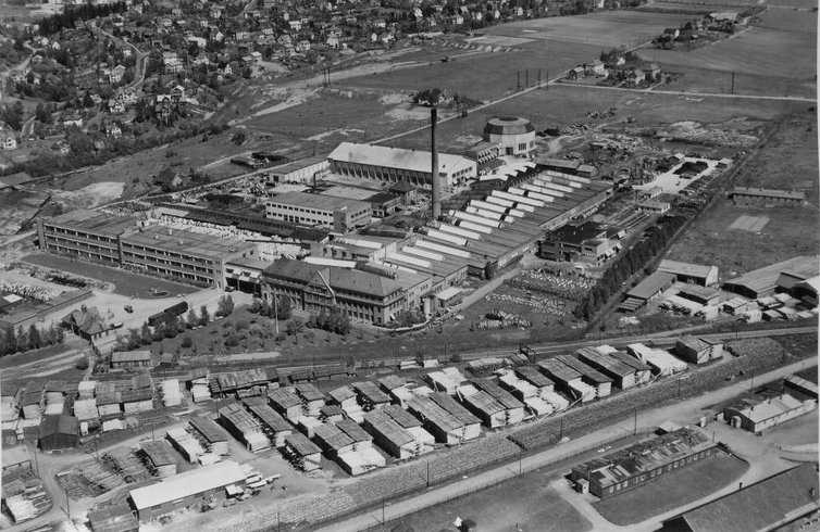 Standard Telefon- og Kabelfabrikk at Økern in Oslo, Norway, with the Alna Line in the foreground